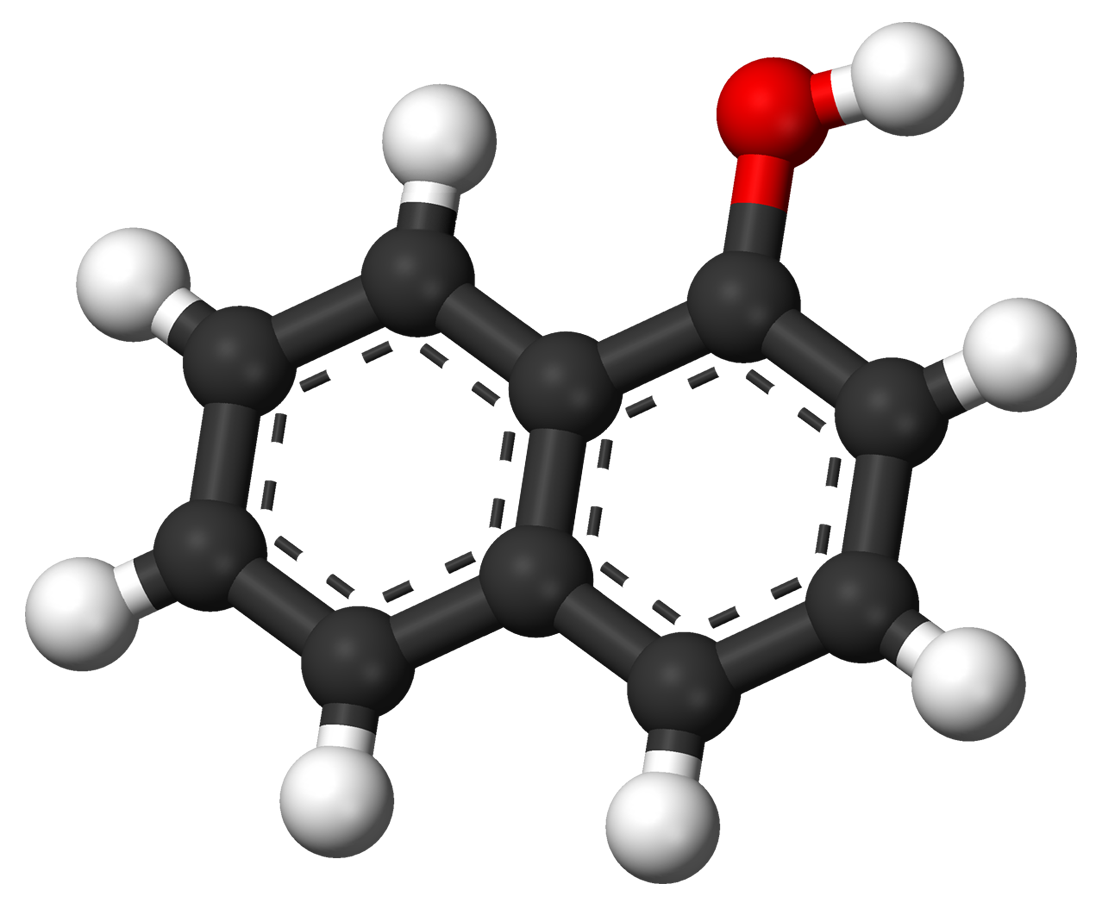 Ball and stick model of the 1-naphthol molecule.